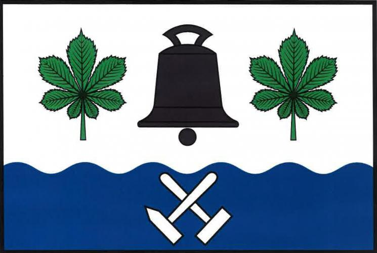 Flag of Černov, Pelhřimov District, Czechia